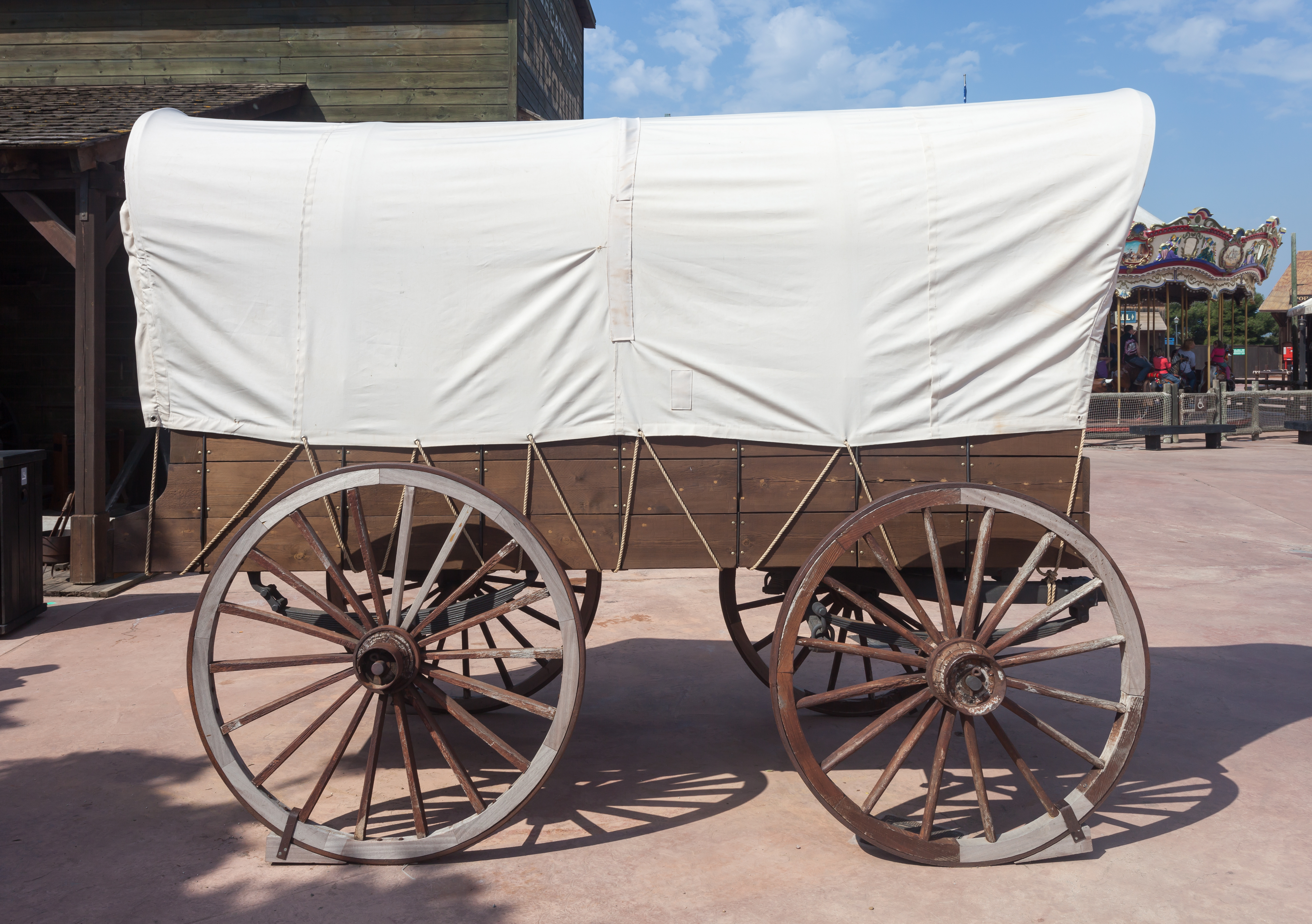 Carriage, "Far West (Port Aventura)", Tarragona, Catalonia.